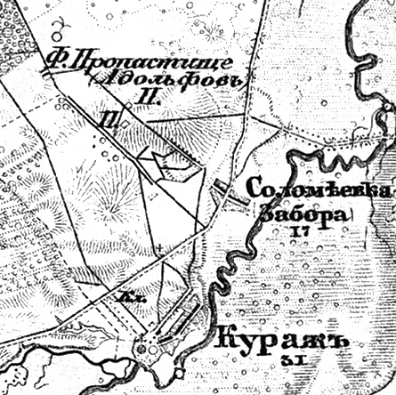 Kurash on the map "Военно-топографическая карта Российской Империи" (known as "Schubert's map"), XX 5, 1866-1887 (issued in 1913).